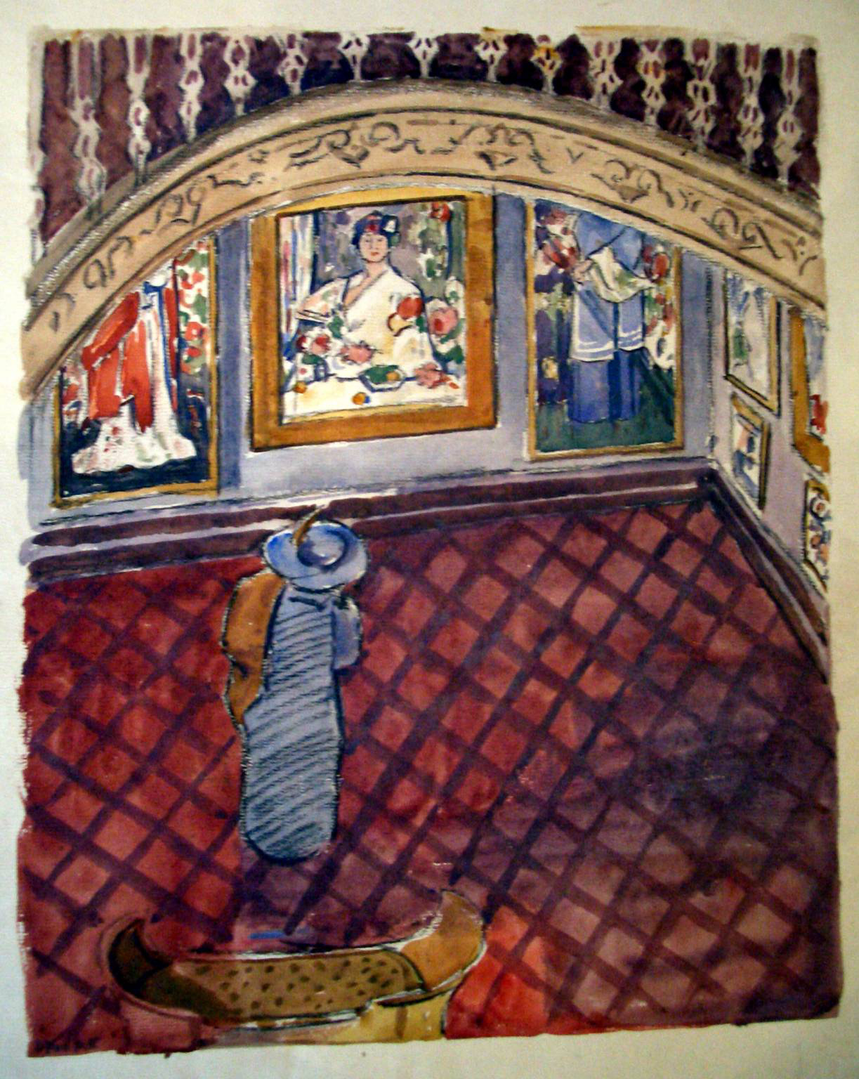 Douglas Fox Pitt, The Stafford Gallery, 1912; full description at